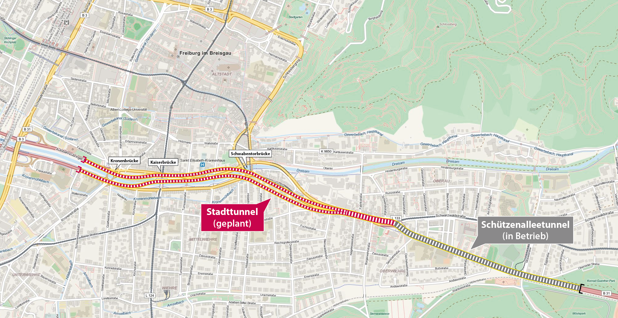 Map of the planned city tunnel in Freiburg i.B.